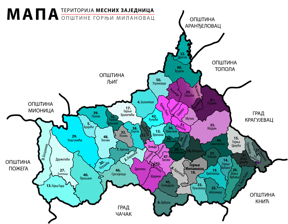 Setlements in Gornji Milanovac and theirs boundaries of municipality